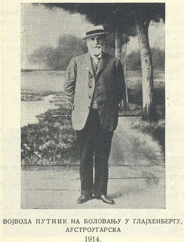 Duke Putnik on leave during 1914. Српски (ћирилица): Војвода Путник на лечењу у Глајхенбергу 1914. године